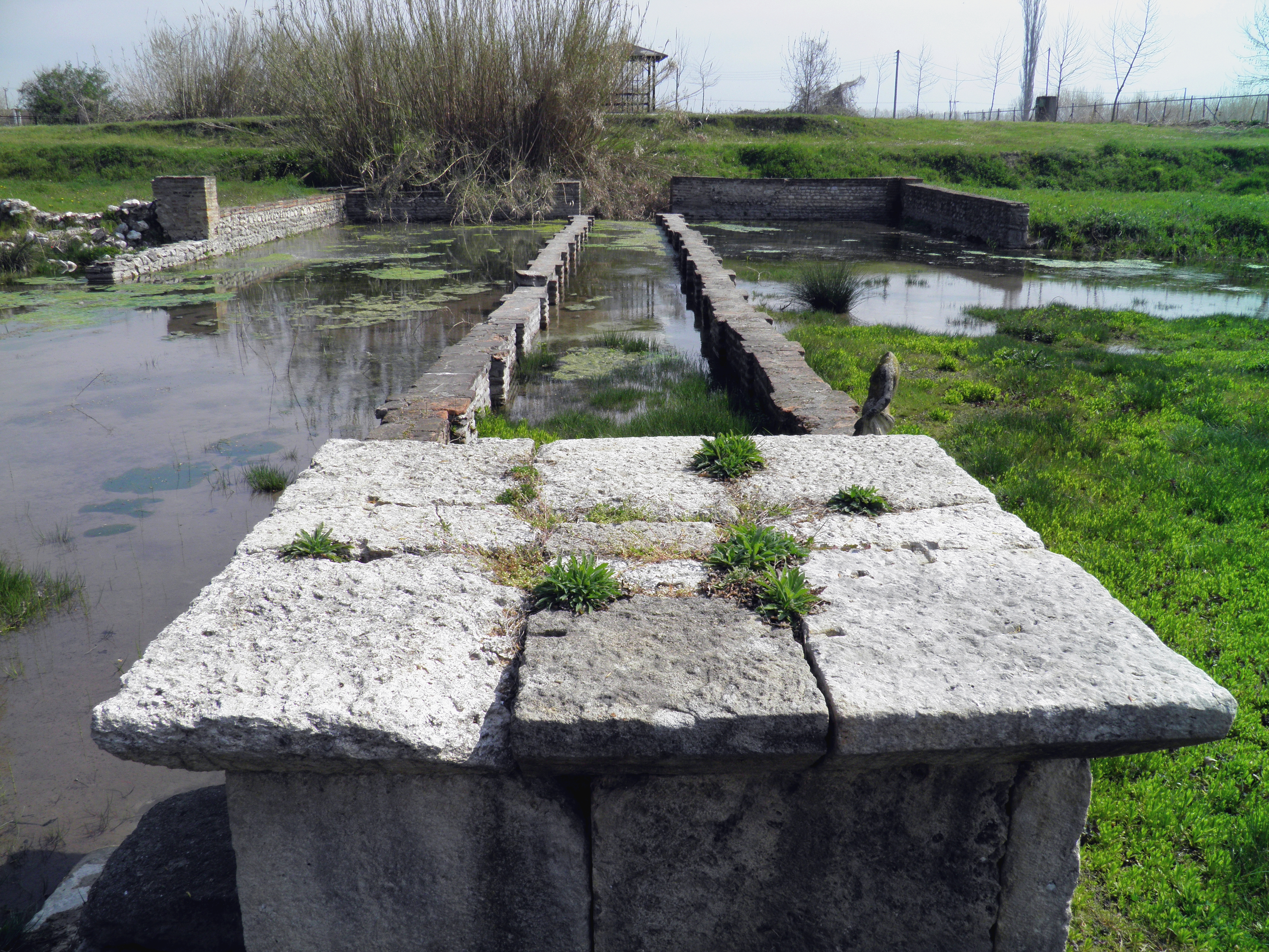 The elongated pathway flanked by low walls symbolizing the Nile, the sacred river of Egypt, Sanctuary of Isis, Ancient Dion